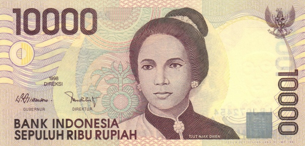 Indonesian currency issued 1998-2005.